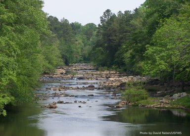 Rocky River, NC (You can fish Cape Fear Shiner (Notropis mekistocholas))